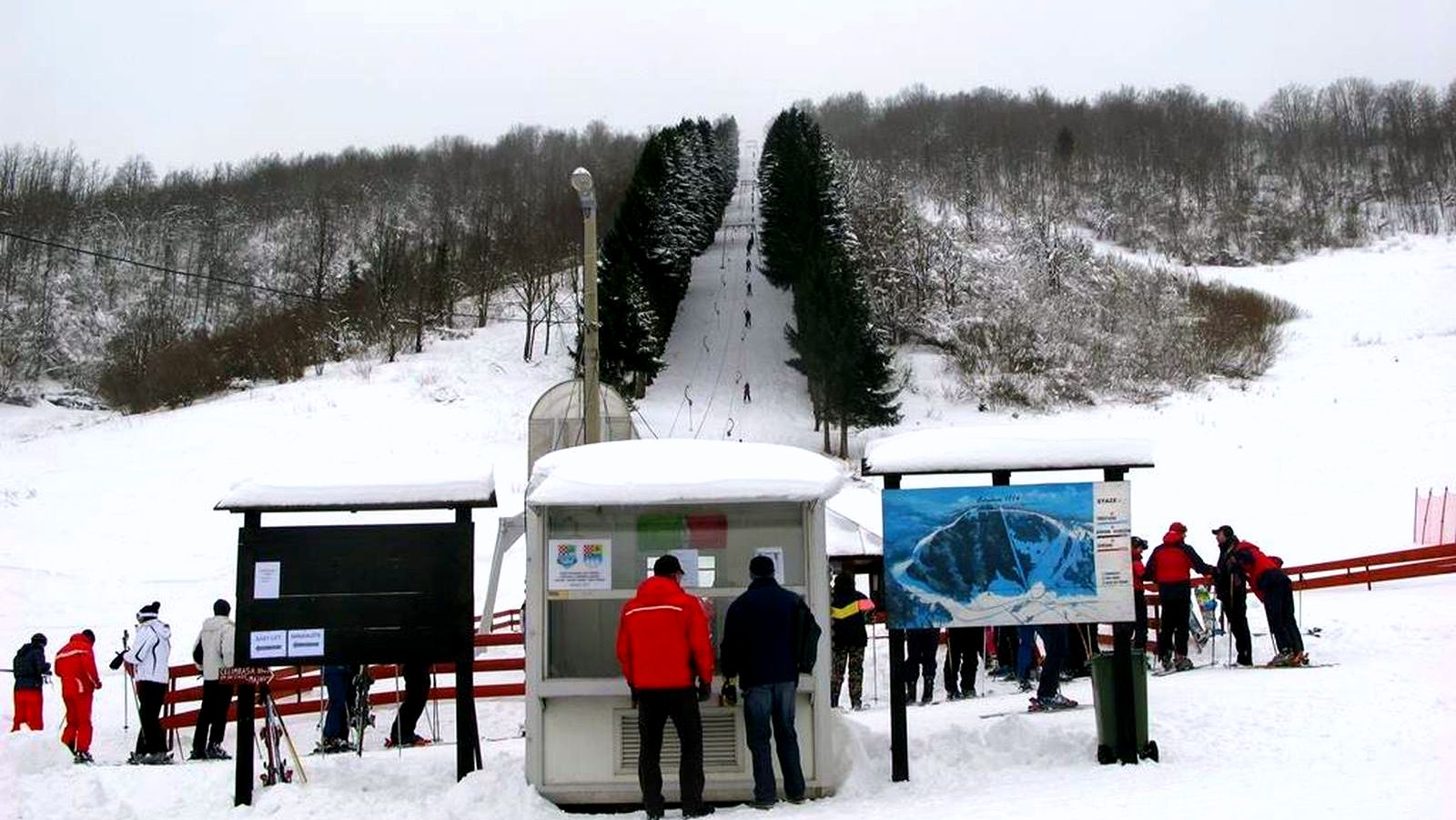 Čelimbaša ski resort near Mrkopalj, Croatia.